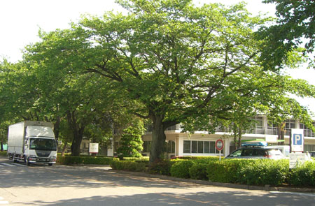 Entrance to Valeo's Kohnan Plant, Saitama Prefecture, Japan